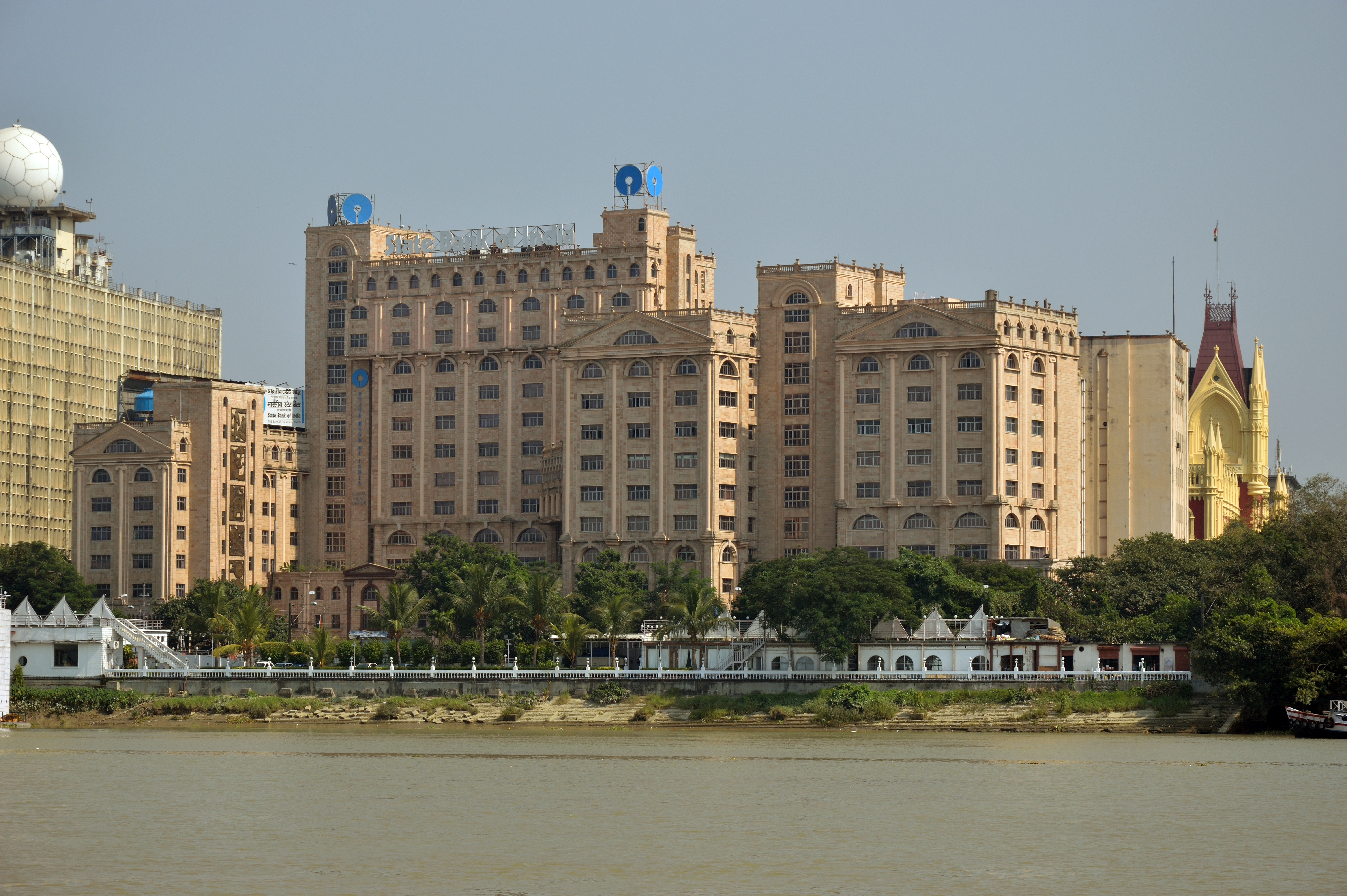 Photographed in greater Kolkata.